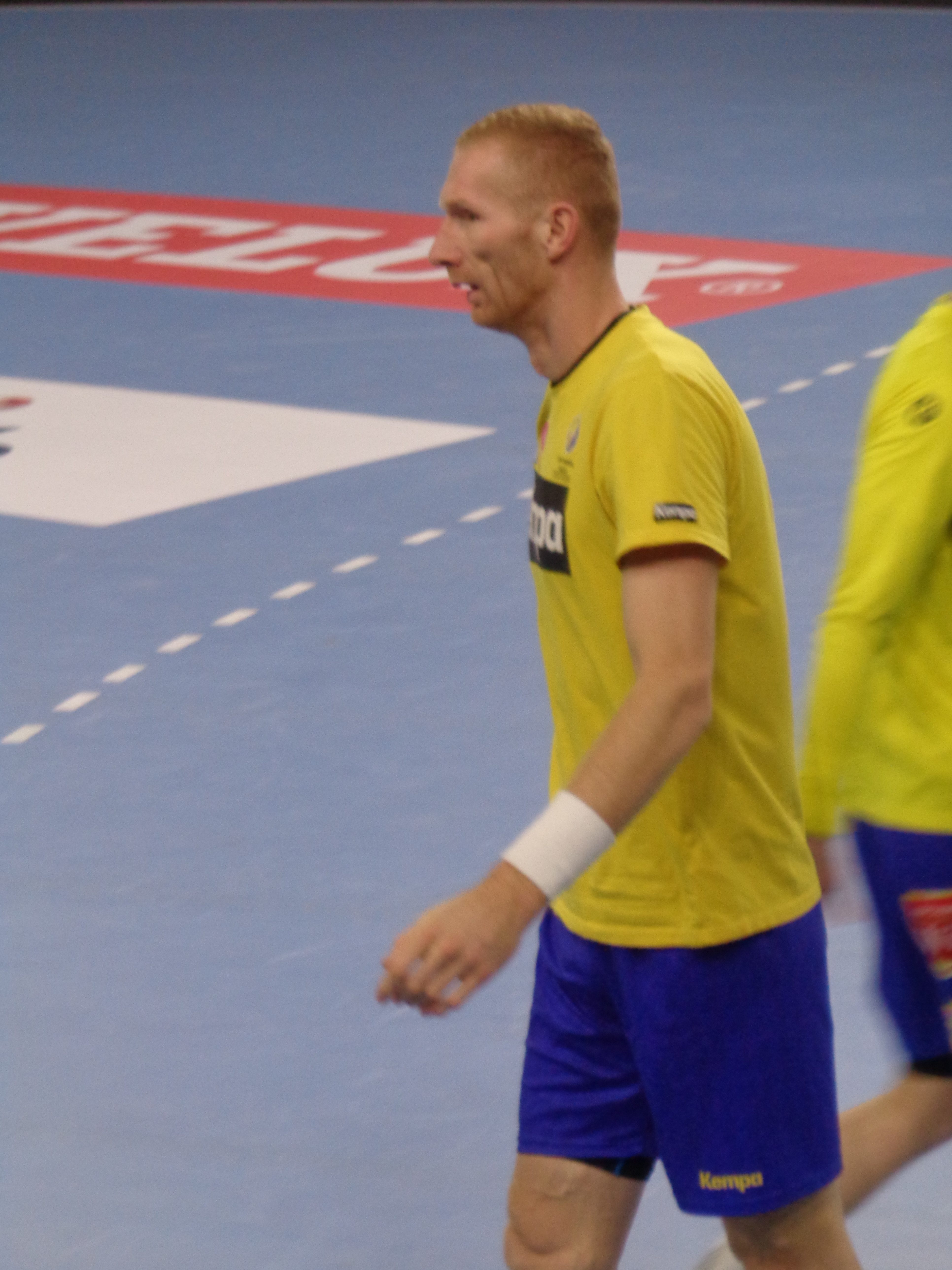 Karol Bielecki (born 1982), Polish handball player, during the match PPD Zagreb - Tauron Vive Kielce in Varaždin Sportshall, Croatia, on 16th November 2016.